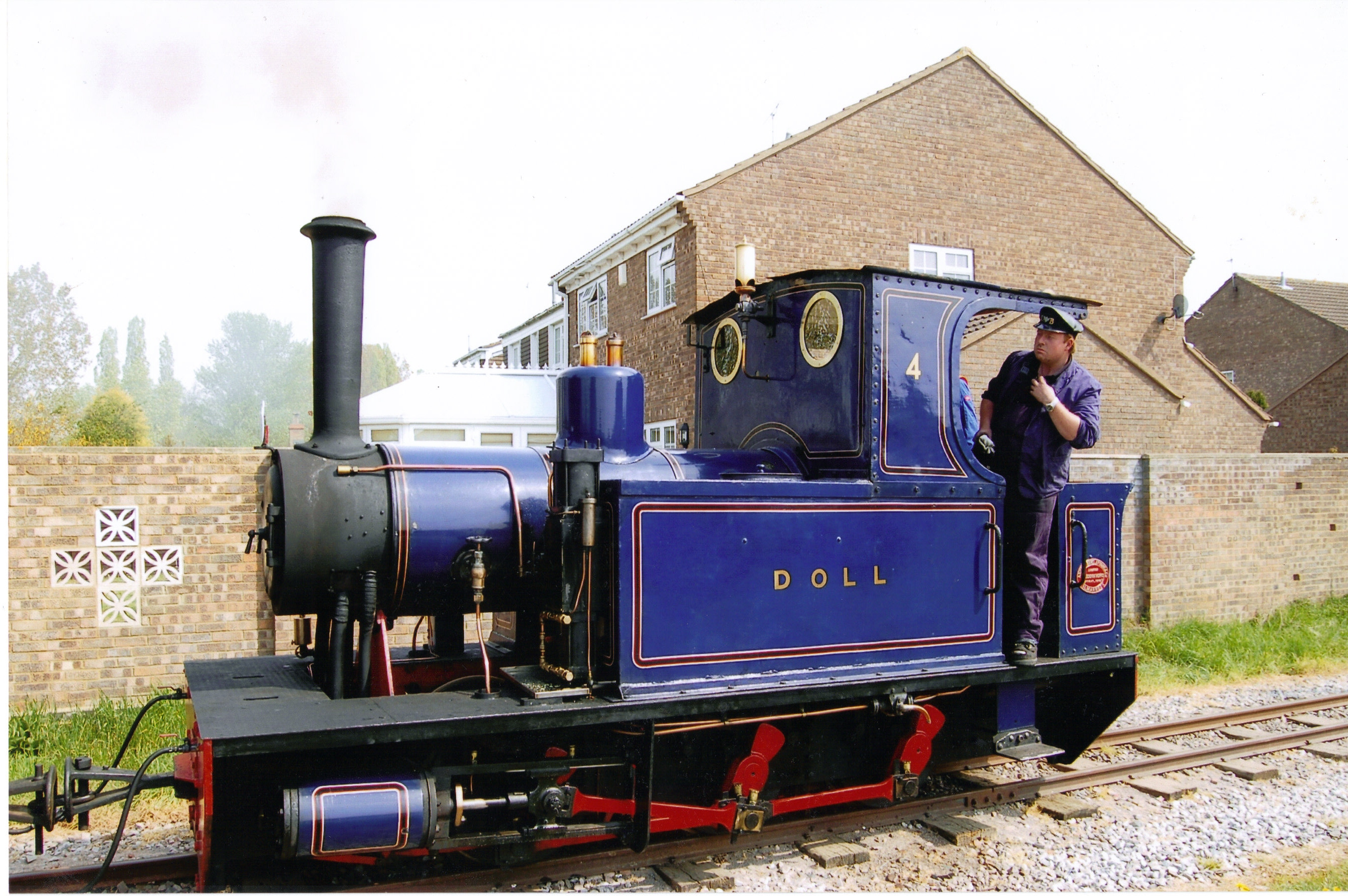 0-6-0T Steam Locomotive "Doll" (LBNGR #4). Built by Andrew Barclay (works number 1641 of 1919).